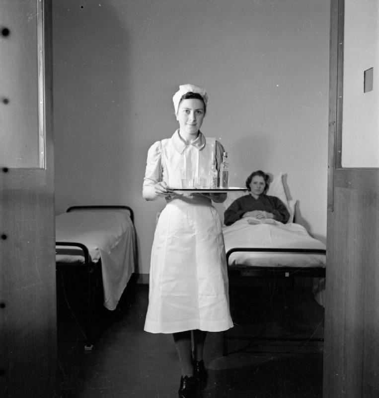 Student Nurse- Life at St Helier Hospital, Carshalton, Surrey, 1943 A full-length portrait of student nurse Joyce Collier as she carries a tray away from the bed of a patient at St Helier Hospital. Her uniform consists of a "spotless apron and a practical but attractive mob cap, made simply from a plain triangle of linen".